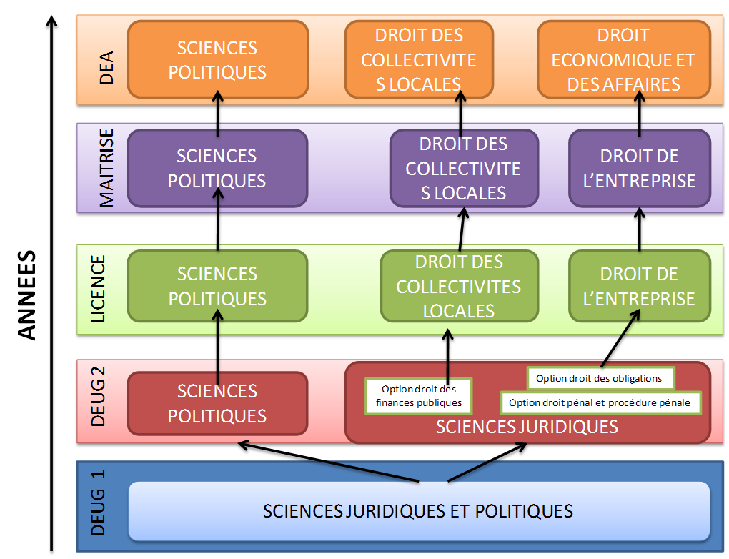 This is a general picture of available formations in faculty of Low in Gaston Berger University(Sénégal).